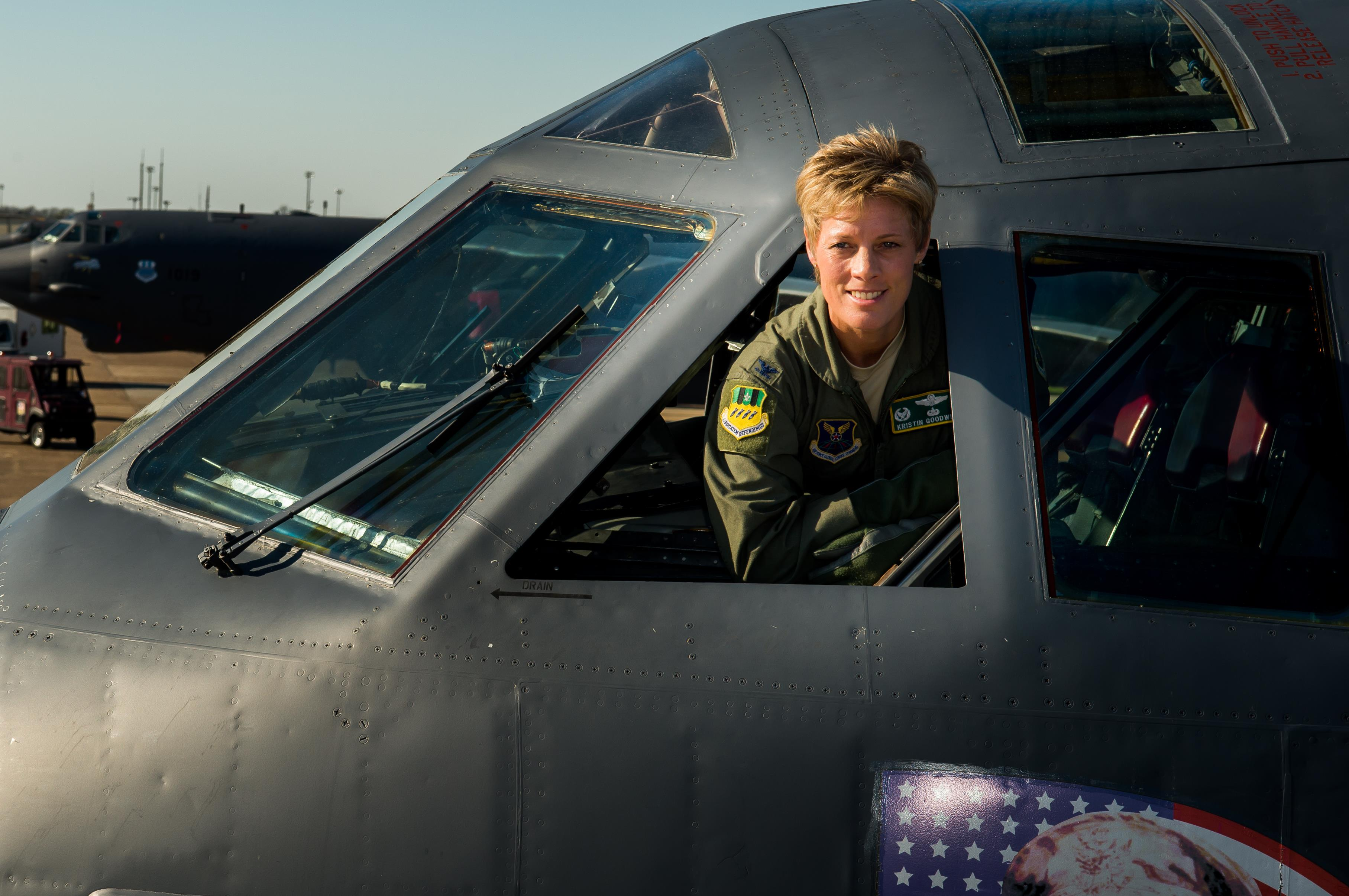 Col. Kristin E. Goodwin, 2nd Bomb Wing commander, peers from the cockpit of a B-52H Stratofortress on Barksdale Air Force Base, La., May 21. Goodwin is scheduled to relinquish command of the 2nd BW to Col. Ty Neuman at a change of command ceremony here, May 20.